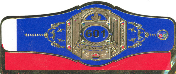 Scan of cigar band for 601 Box-Pressed Maduro